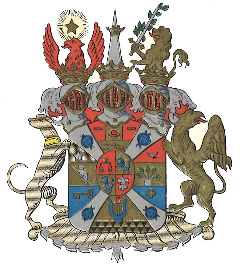 The coat of arms of the comital line of the Swedish noble family Löwenhielm.